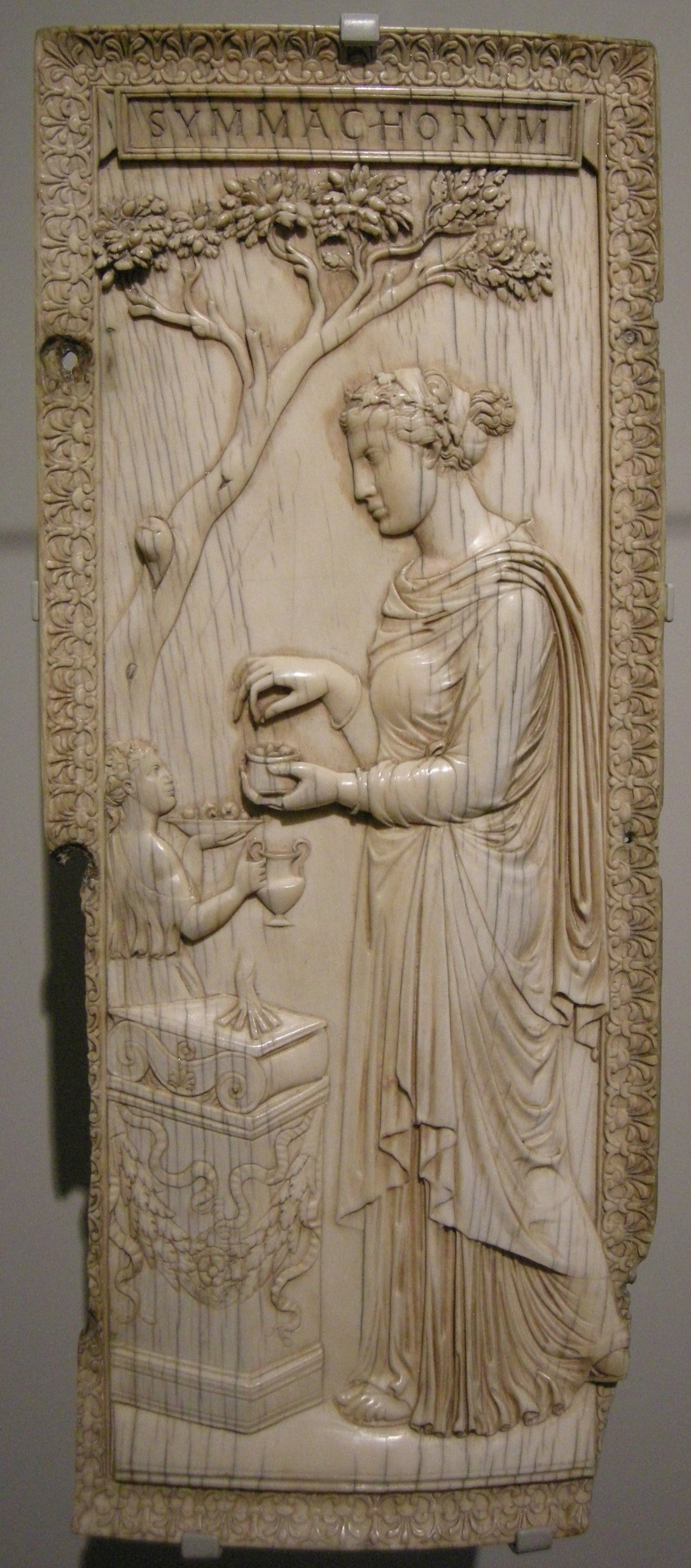 A priestess standing at the altar and beneath an oak tree; diptych leaf of the Symmachi. Made in Rome, Italy.